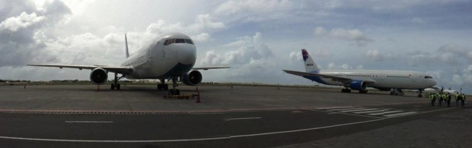 MEG and MEH